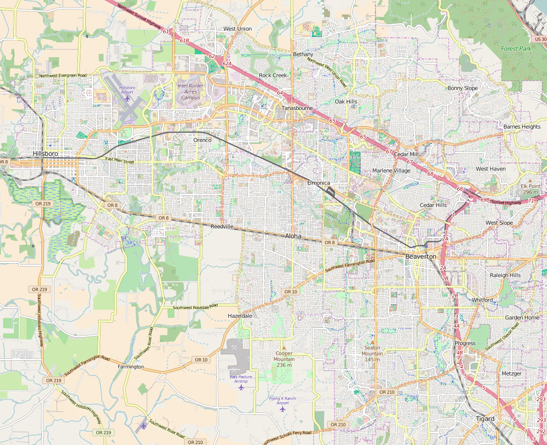 Map of Hillsboro & Beaverton, Oregon This map of Hillsboro_Beaverton was created from OpenStreetMap project data, collected by the community. This map may be incomplete, and may contain errors. Don't rely solely on it for navigation.